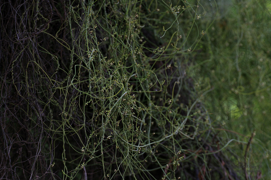 Cassytha filiformis - Love Vine, air creeper, devil's gut, dodder-laurel, green thread creeper, moss creeper, princess hair, Sita's yarn • Hindi: आकास बेल akas bel • Marathi: अमरवेल amarvel, अंबरवेल ambarvel • Tamil: எருமைக்கொற்றான் erumai-k-korran, தூற்றுமைக்கொற்றான் turrumai-k-korran, பசுங்கொற்றான் pacu-n-korran • Telugu: ఆకాశవల్లి akasa-valli • Kannada: ಆಕಾಶ ಬಳ್ಳೀ aakaasha balli, ಅಮರ ಬಳ್ಳಿ amara balli, ಬೀಳು ಬಳ್ಳಿ bilu balli, ದಾರದ ಬಳ್ಳಿ daarada balli, ಜನಿವಾರ ಬಳ್ಳಿ janivaara balli, ಮಮ್ಗನ ಉಡಿದಾರ mamgana udidaara • Oriya: akashavuli • Konkani: आंकासवेल ankasvel • Urdu: آکاس بيل akas bel • Sanskrit: आकासवल्ली akasavalli- in Hyderabad, India.